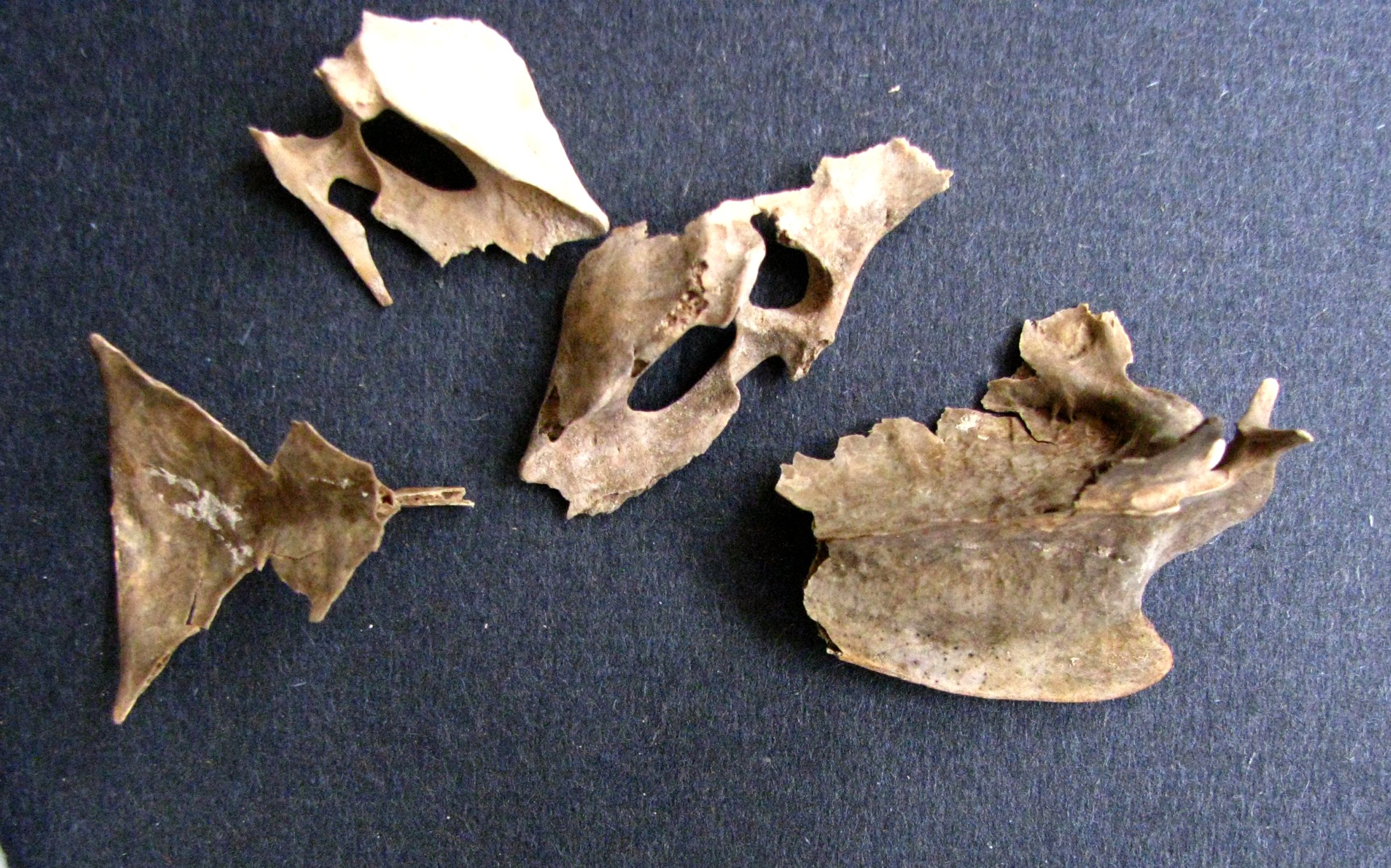 The Hawaiian Islands once had three distinct crows (Corvus). One species remains and it is extremely rare, the Hawaiian crow or ʻalalā (Corvus hawaiiensis). The other two are extinct. These fossils represent one or two of the Slender-billed crow (Corvus viriosus) and the Deep-billed crow (C. impulviatus). Pictured is various bones along with the sternum (right). These specimens came from the Barber's Point sinkholes, Oʻahu, Hawaiian Islands. Identified by the late Alan C. Ziegler in 1992.